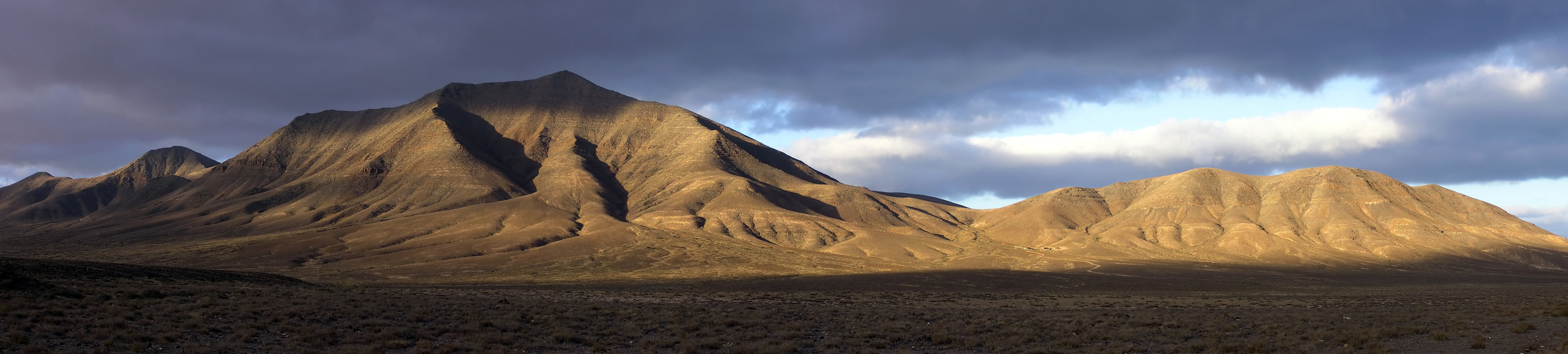 Hacha Grande (562m), the Degollada Valle Perdomo, Montaña Breña Estesa and the Morros de Hacha Chica (left to right) viewed across the arid plain of El Rubicón from the road to the Monumento Natural de los Ajaches (Punta de Papagayo), on the Canary Island of Lanzarote. Pico Redondo (562m) is visible on the far left. Lanzarote is a volcanic island with very low rainfall; much of the south of the island is desert and a barren expanse of lava flows. Lanzarote (Canary Islands, Spain).